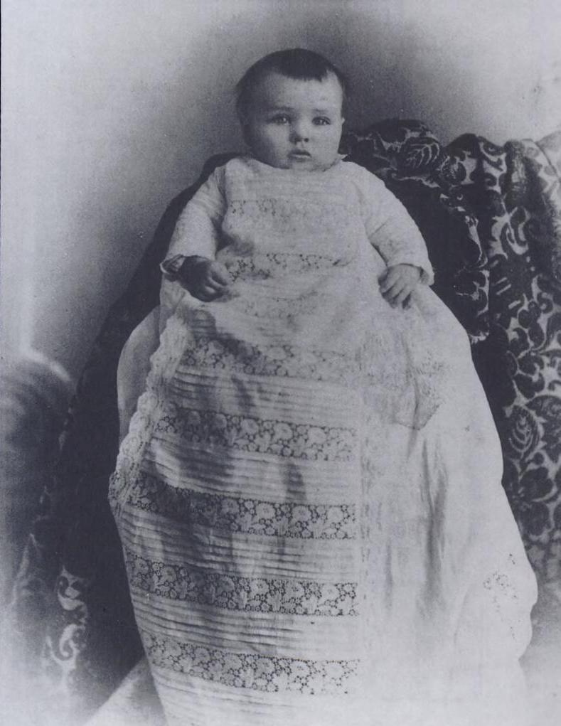 L. Frank Baum's four-month-old son, Harry Neal Baum, in a J. Q. Miller photograph dated 1 May 1890